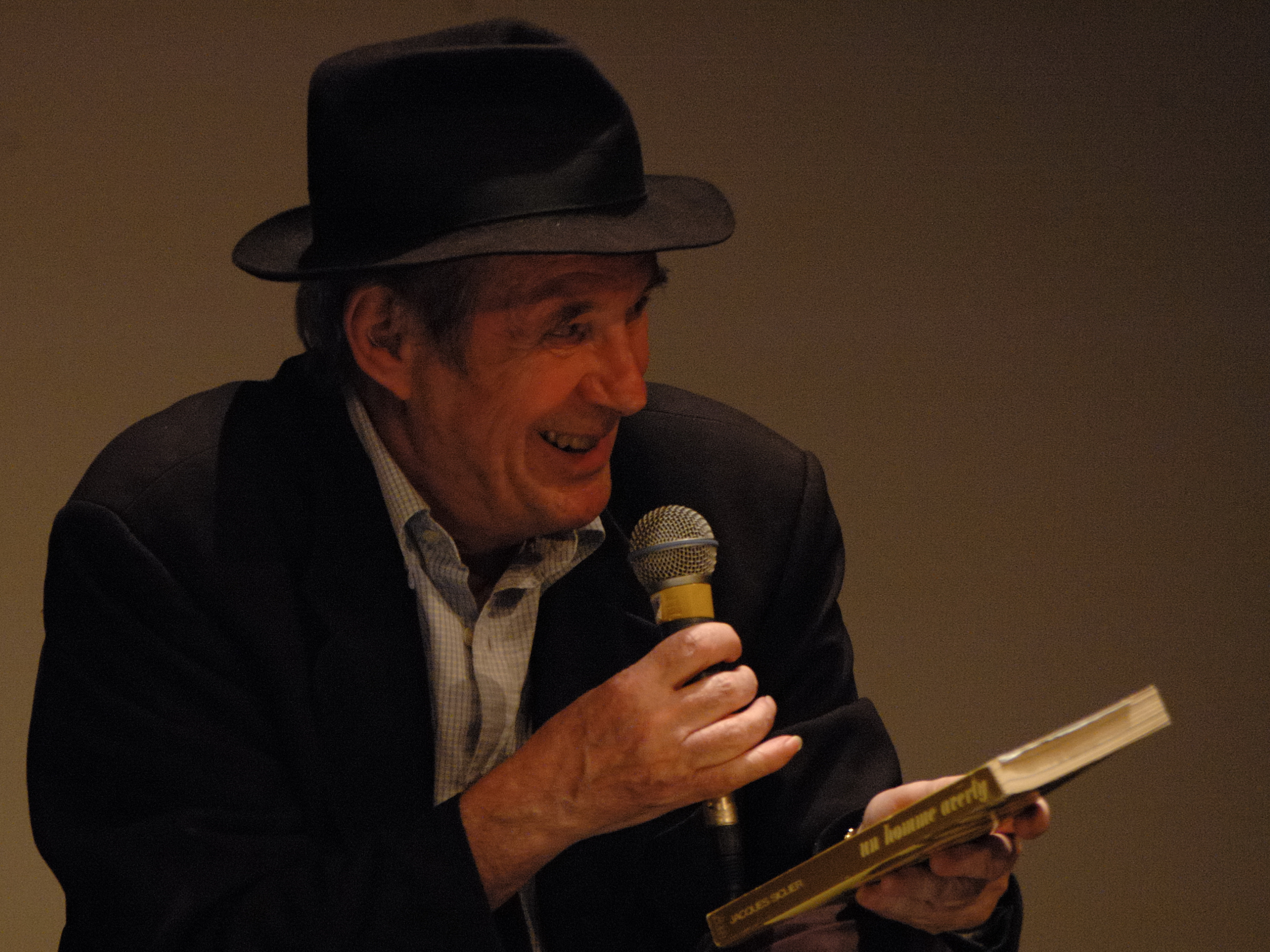 French critic, producer and film maker André S. Labarthe discussing with television and radio producer Jean-Christophe Averty